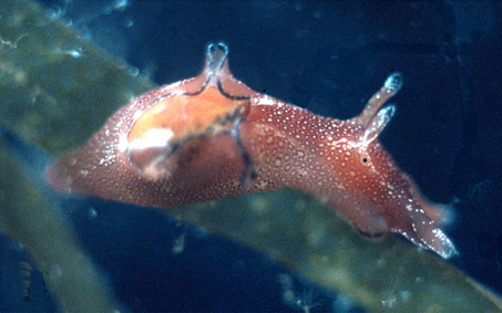 Photo of Aplysia punctata (Cuvier, 1803) (Anaspidea) – Mediterranean Sea.